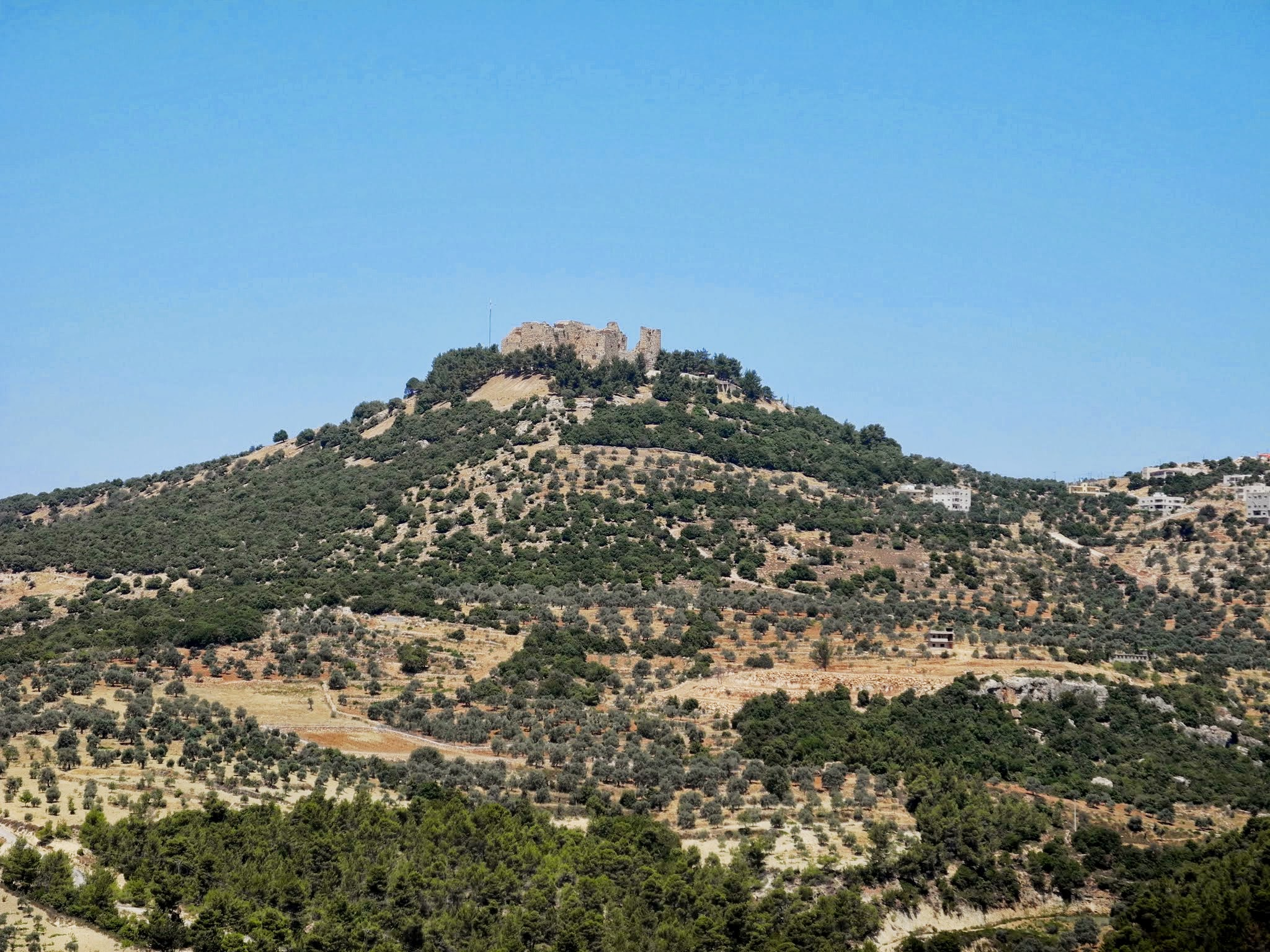 10 Ajloun Castle Circuit -View of the Castle from the Valley